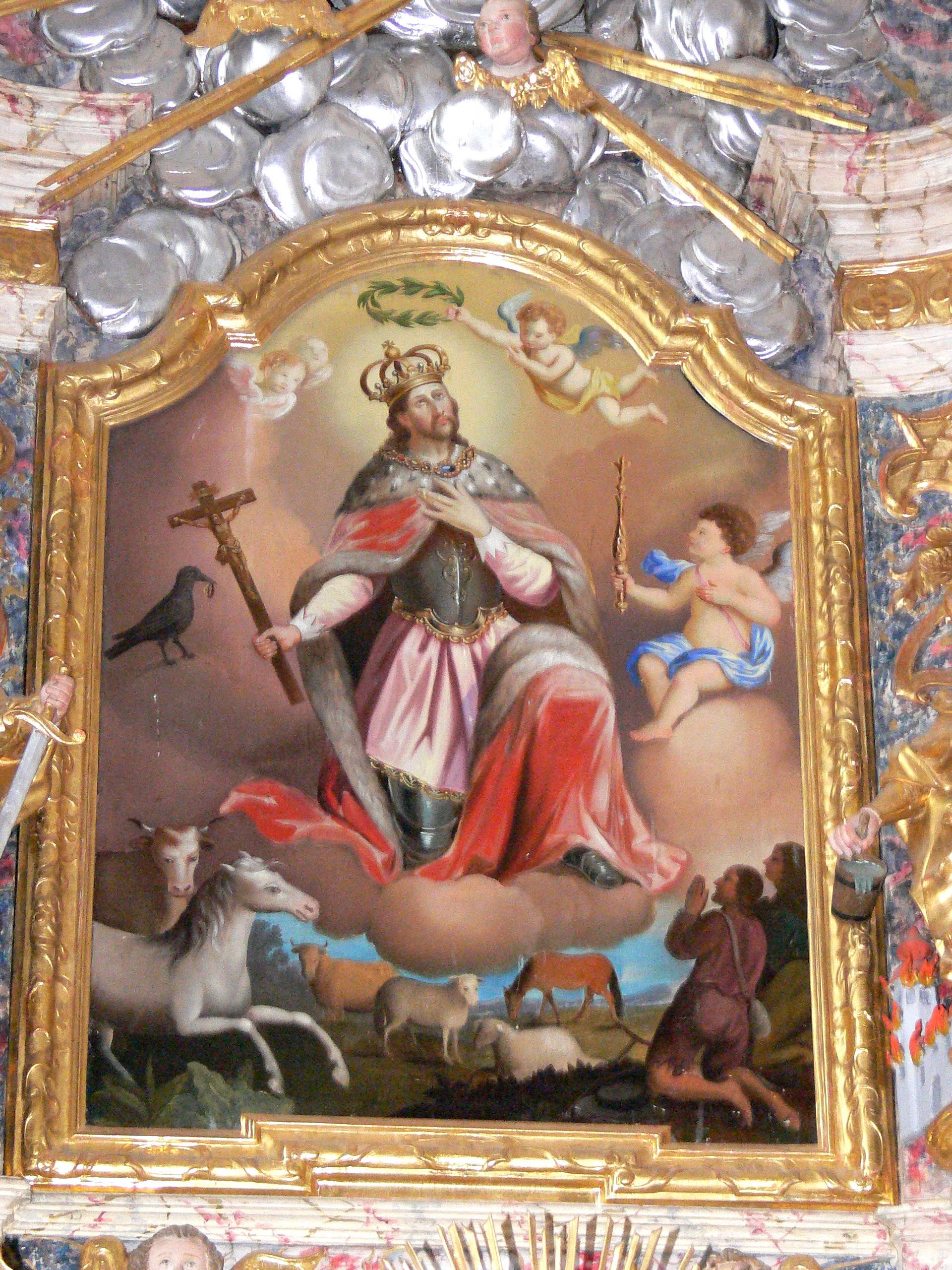 Parish church in Sankt Oswald ob Eibiswald ( Styria ). High altar ( 1764 ): Painting of Saint Oswald as patron of cattle.